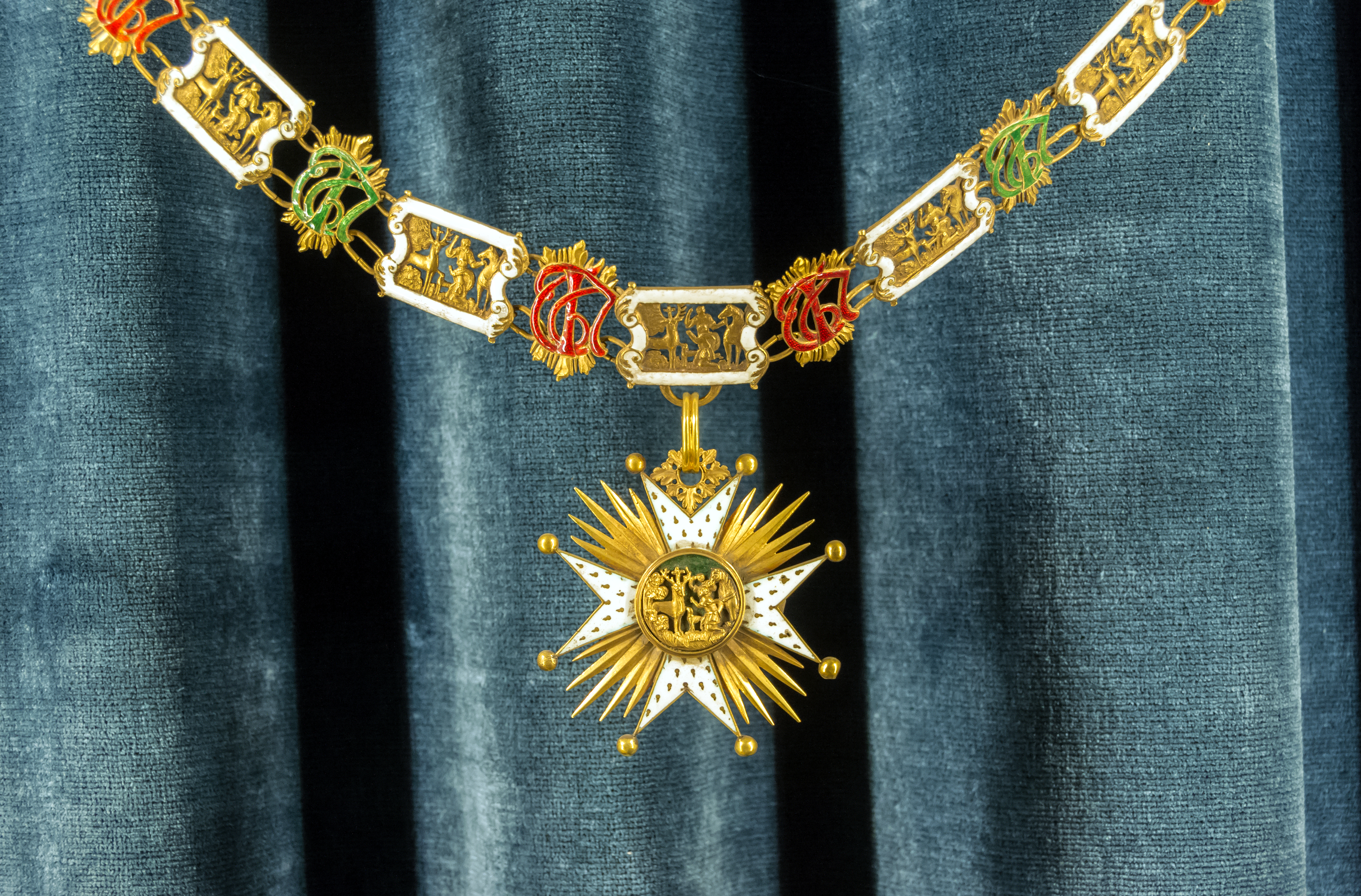 Grand-Collar of the bavarian Order of Saint-Hubert, detail. Schatzkammer, Residenz, Munich, Bavaria, Germany.